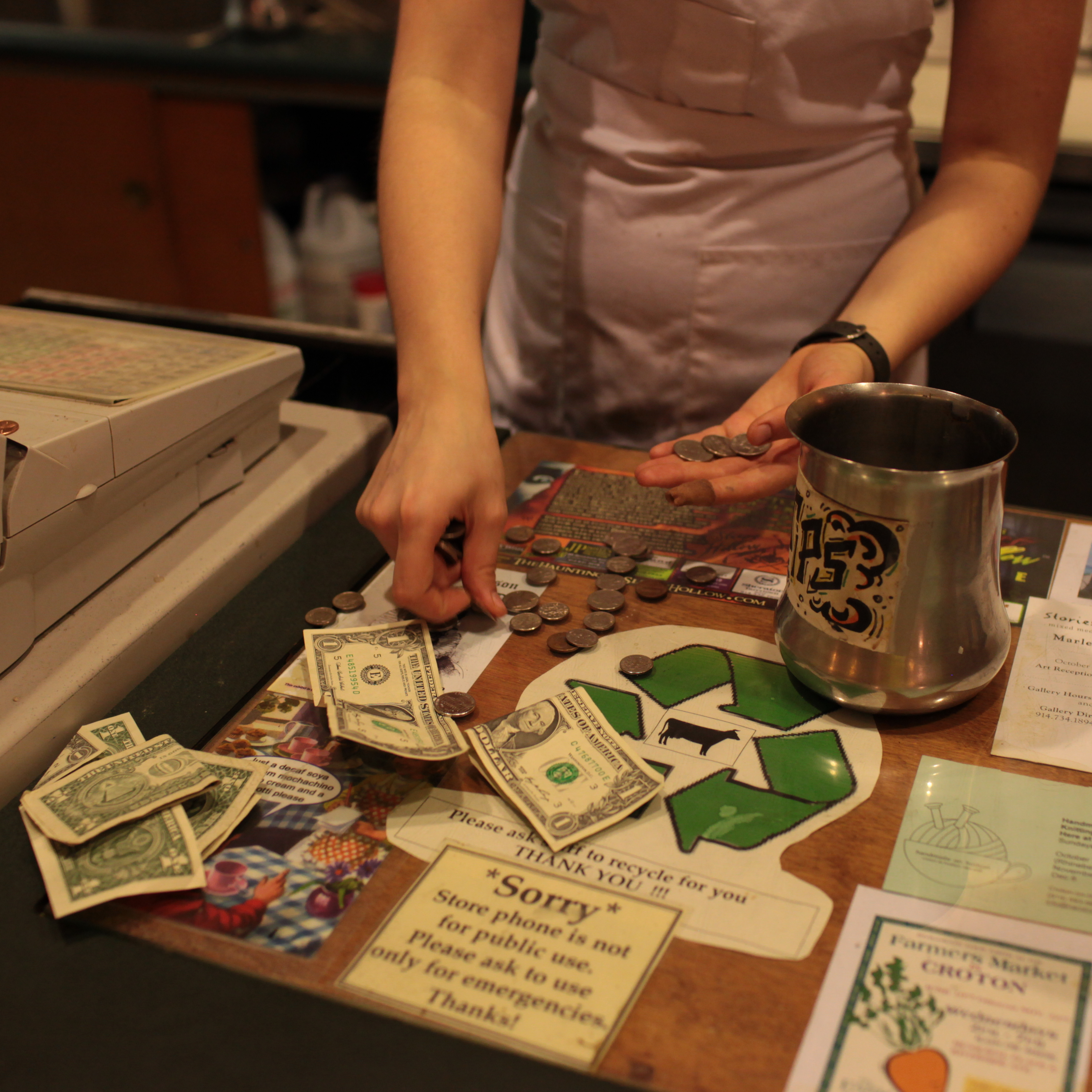 A barista counting out tips at the end of the day at the Black Cow Coffee Company in Croton-On-Hudson, NY